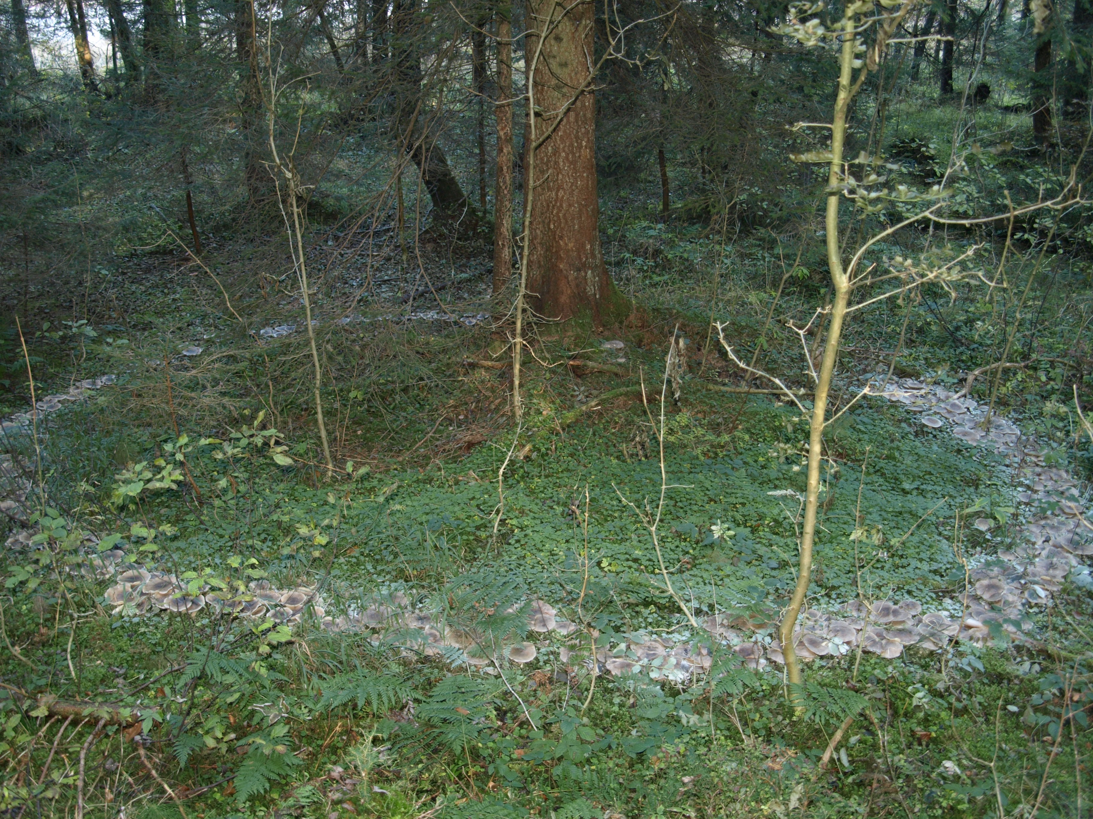 Fairy ring of Clitocybe nebularis ("Clouded Agaric"), photographed near Buchenberg in the Allgäu.